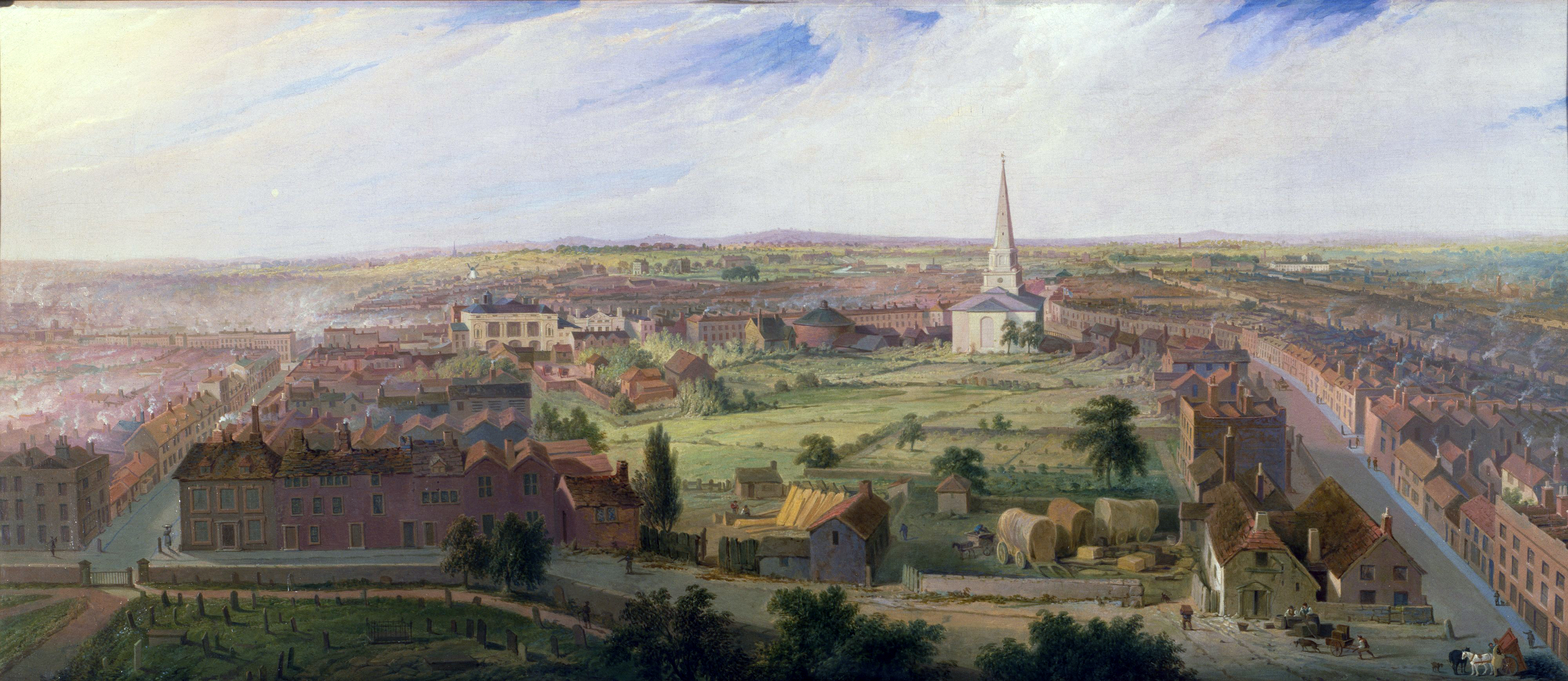 Samuel Lines, Birmingham from the Dome of St Philip's Church in 1821 (1821), oil on canvas. The church is Christ Church, demolished 1899, in Birmingham, England. St Phillips is now Birmingham Cathedral.